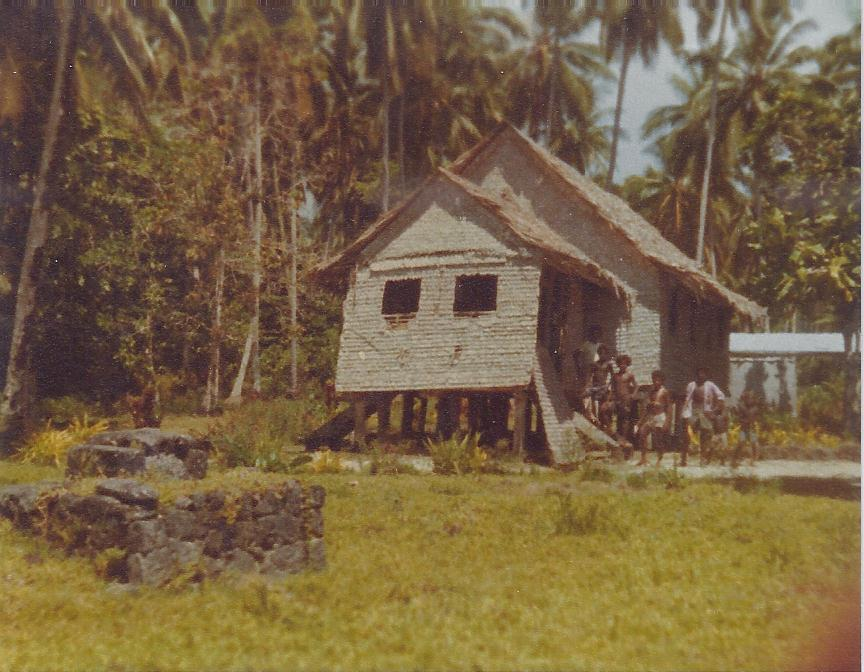 The village is near where John F. Kennedy's ship was sunk by the Japanese August 1–2, 1943. In front of the church is bones of people eaten by people there while they were still cannibals.